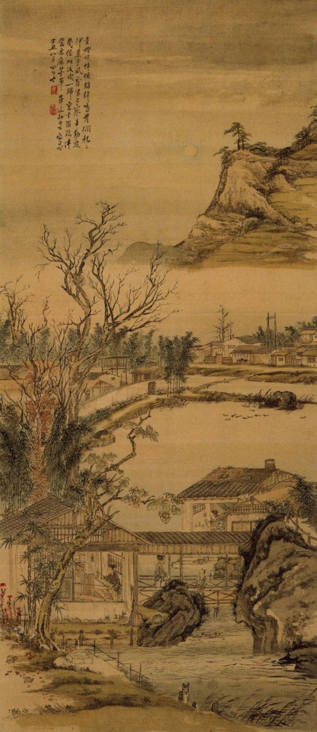 The sounds of weaving under the moon